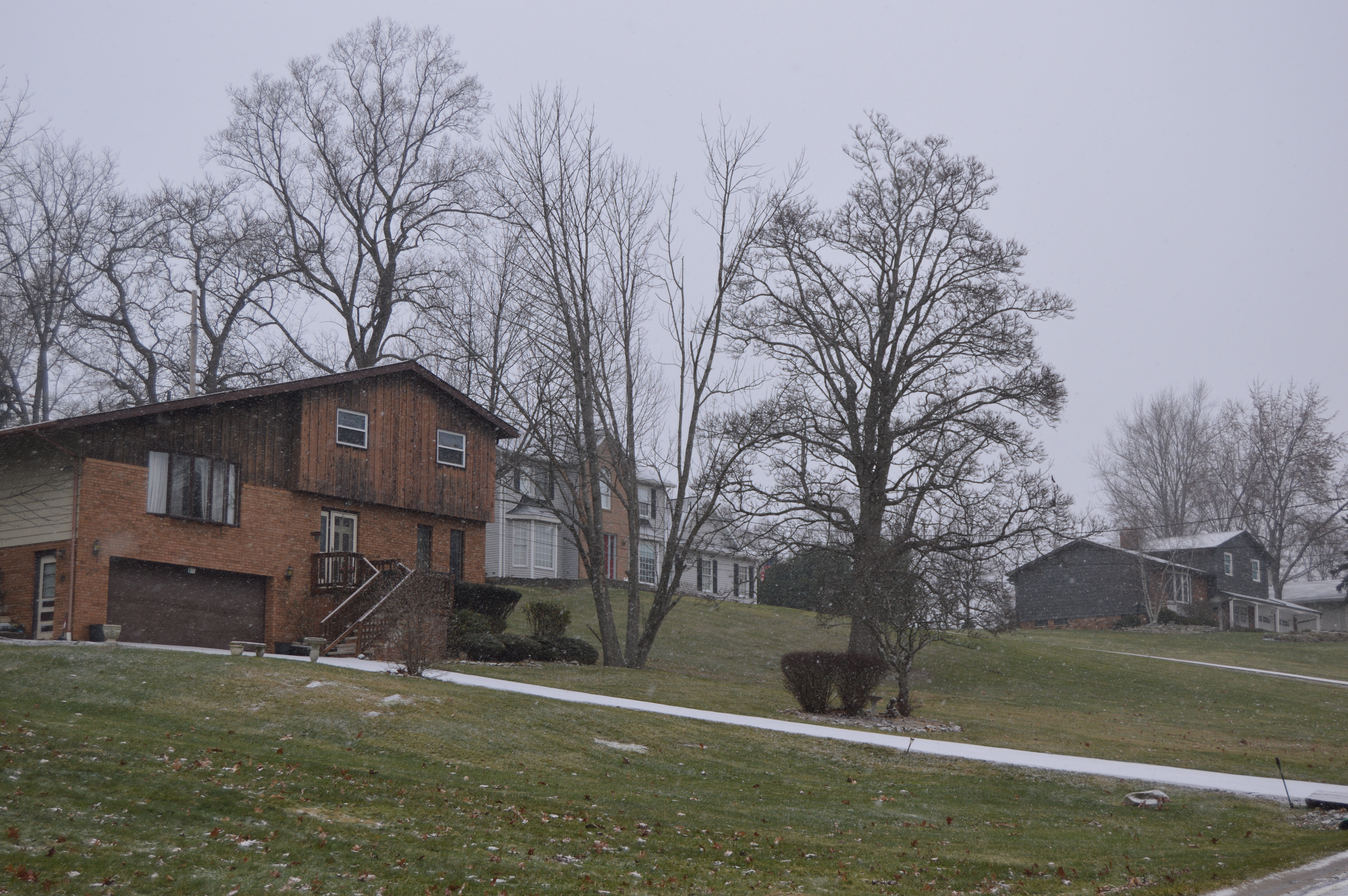 Houses on the western side of Meadowpark Drive, north of Alexander Road, in Walton Hills, Ohio, United States.